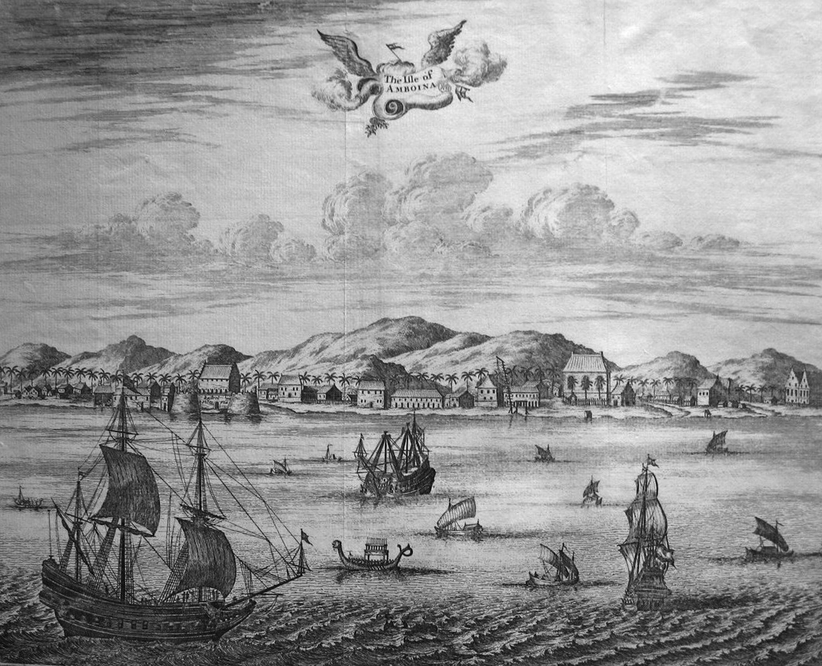 A view of the Dutch factory at Amboina (Ambon), early to mid-17th century. The Portuguese-built fort ("Kasteel Victoria") is seen on the left. Dutch and English flags visible. The island was the scene of the infamous Amboyna Massacre of 1623 that put an abrupt end to the spice trade ambitions of the English East India Company in the Malay Archipelago. Engraving 35 cm x 28 cm